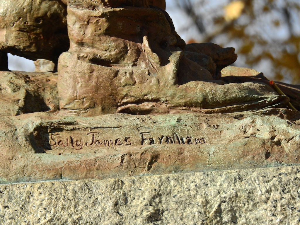 Sally (Sara) James Farnham sculpture, Defenders of the Flag, in Mount Hope Cemetery, Rochester, New York. Signature of the artist